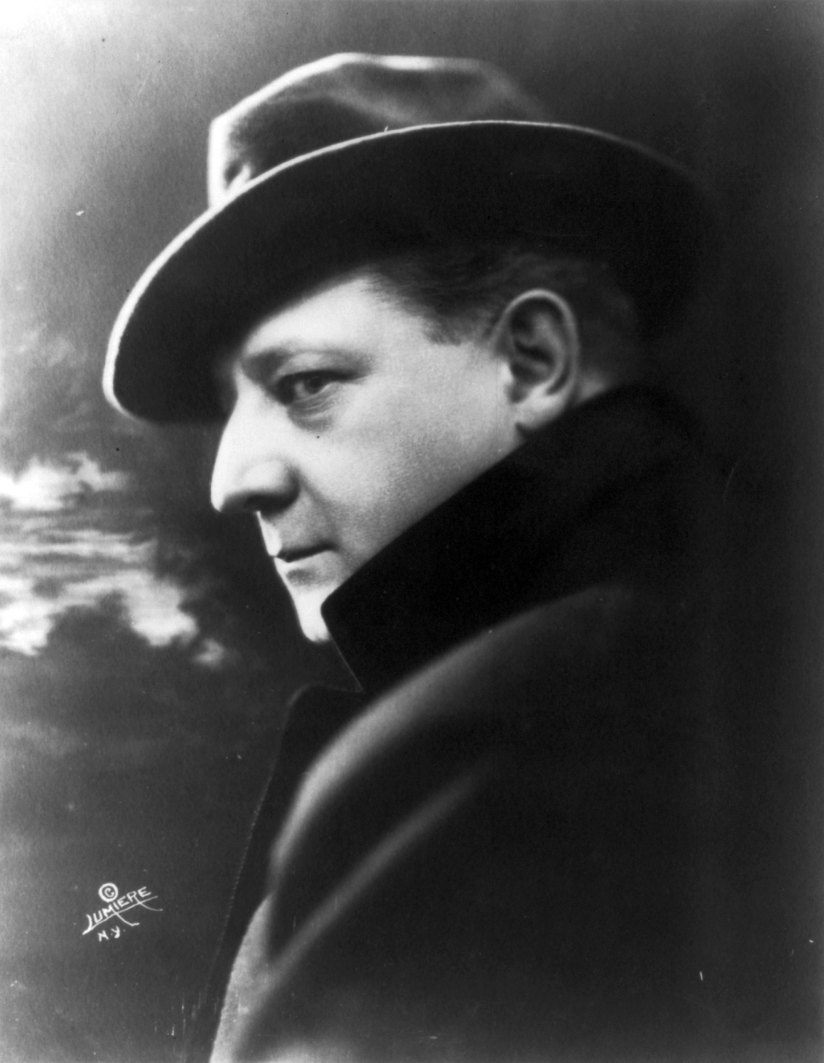 Harrison Fisher (1875-1934), an American commercial artist